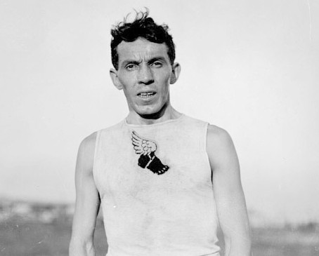 Arthur Newton, US olympic champion St. Louis 1904